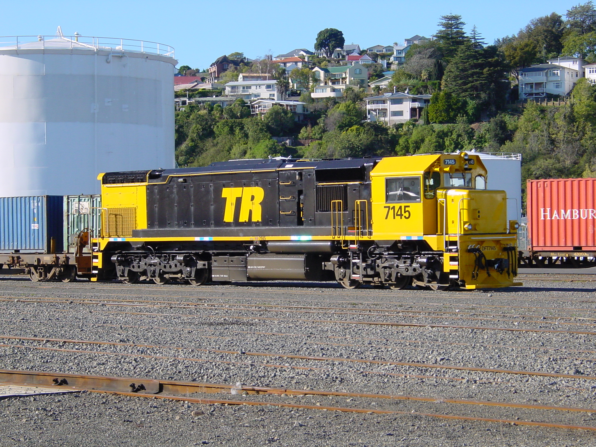 DFT 7145 in Ahuriri Yard, Napier - 8 June 2003